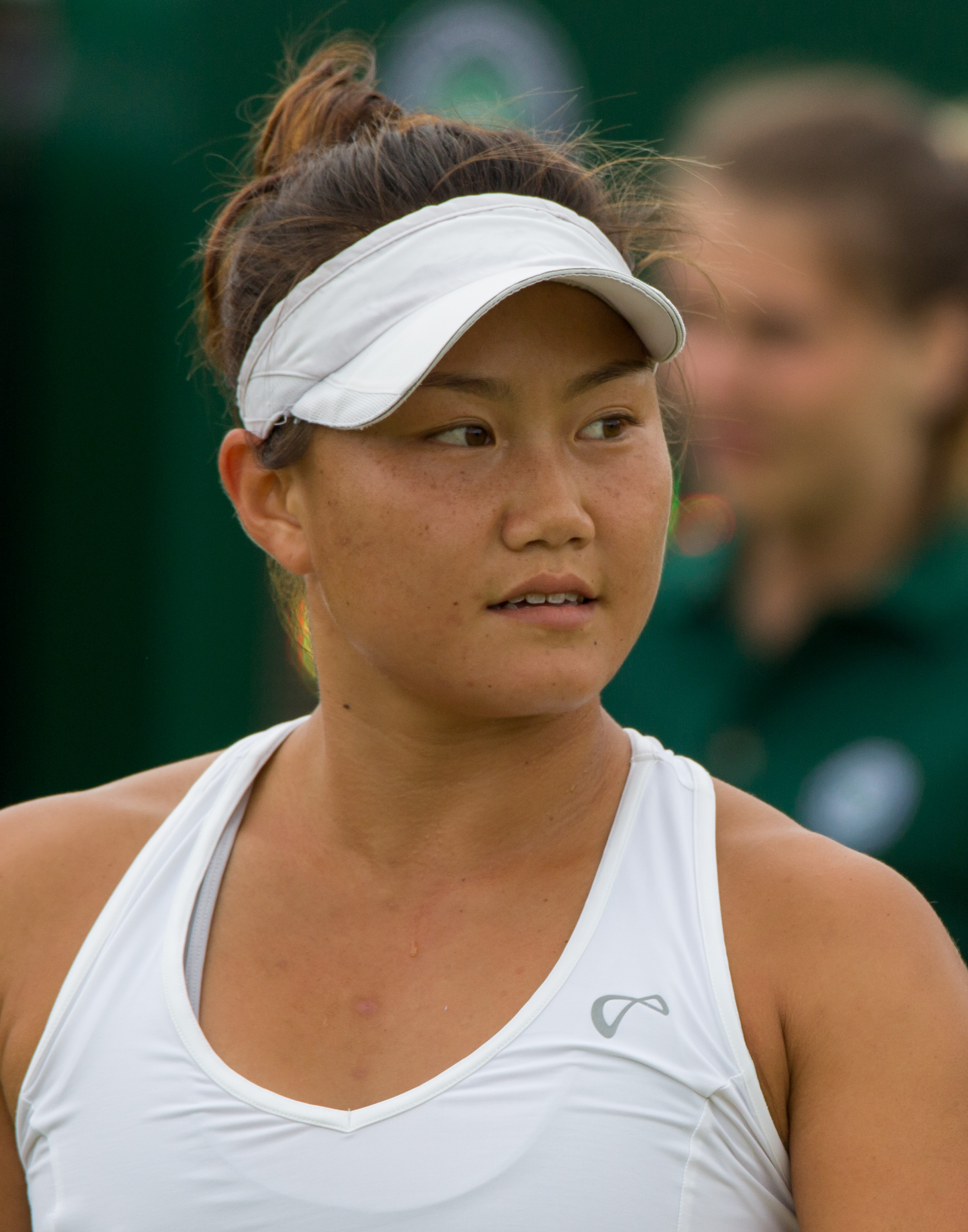 Grace Min competing in the first round of the 2015 Wimbledon Qualifying Tournament at the Bank of England Sports Grounds in Roehampton, England. The winners of three rounds of competition qualify for the main draw of Wimbledon the following week.